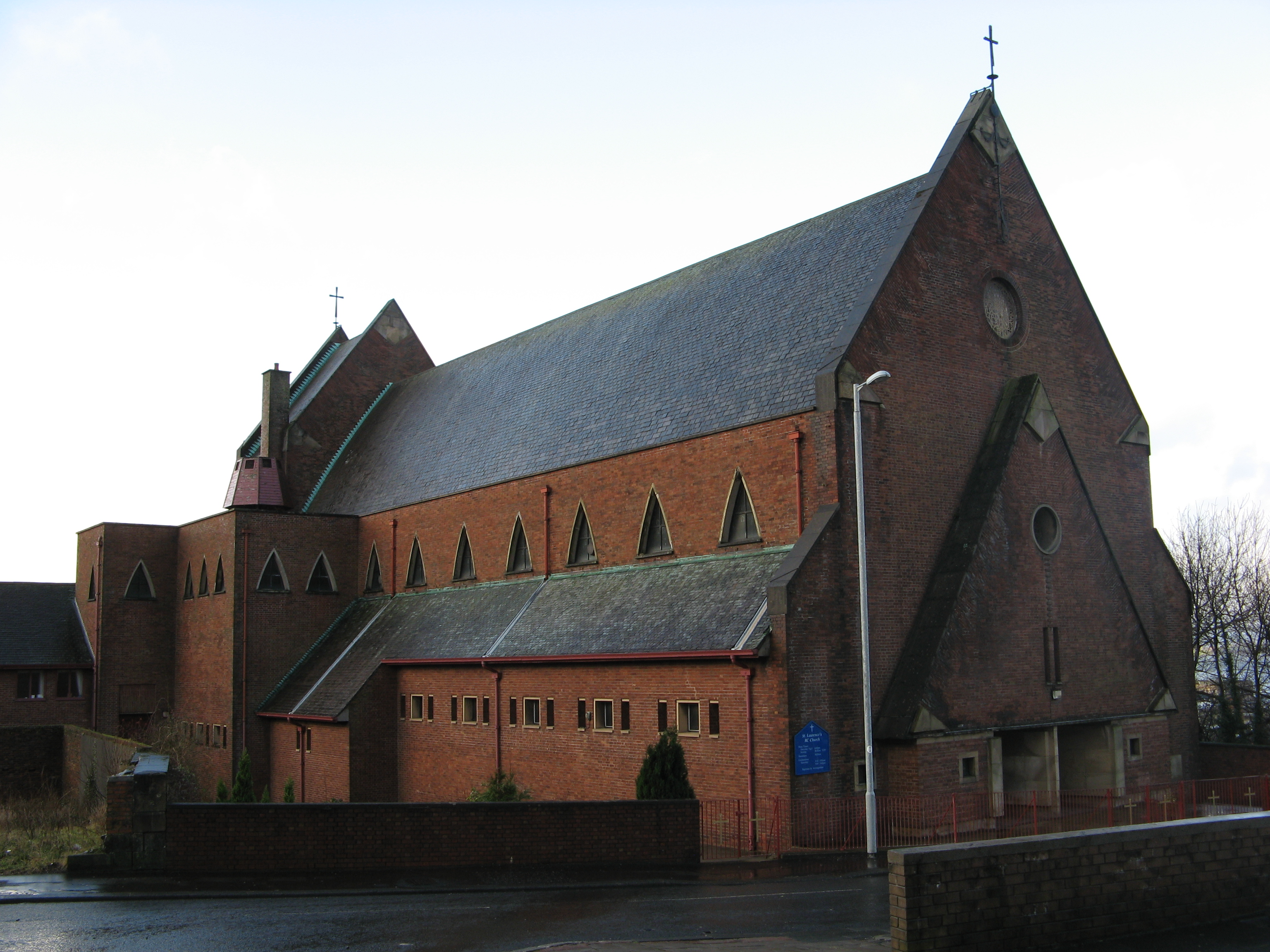 St Laurence's Roman Catholic Church, Greenock, Scotland.